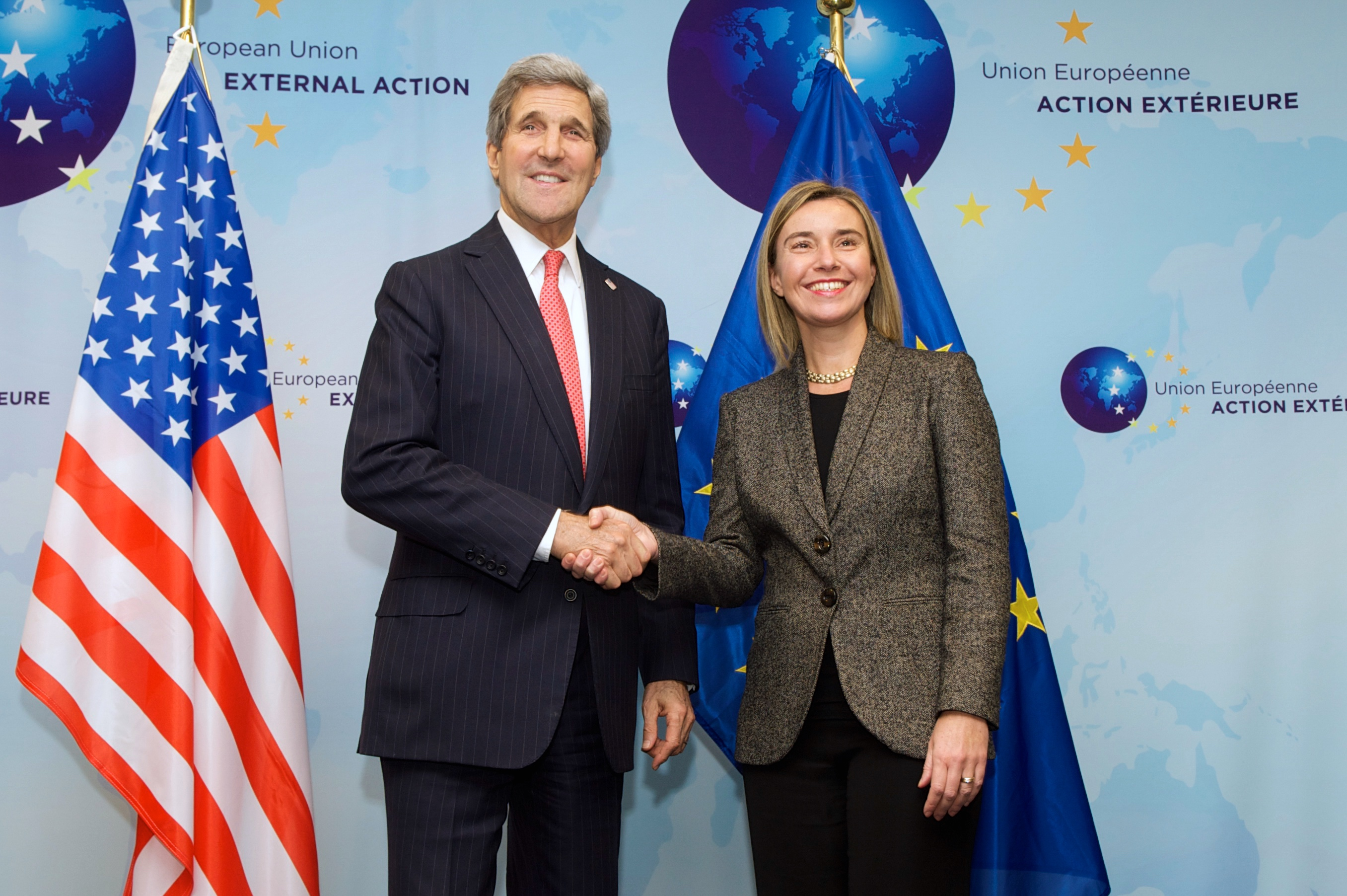 U.S. Secretary of State John Kerry and European Union High Representative for Foreign Affairs Federica Mogherini pose for photographers at the outset of a wide-ranging meeting on December 3, 2014, at the headquarters of the E.U. External Action Service in Brussels, Belgium.